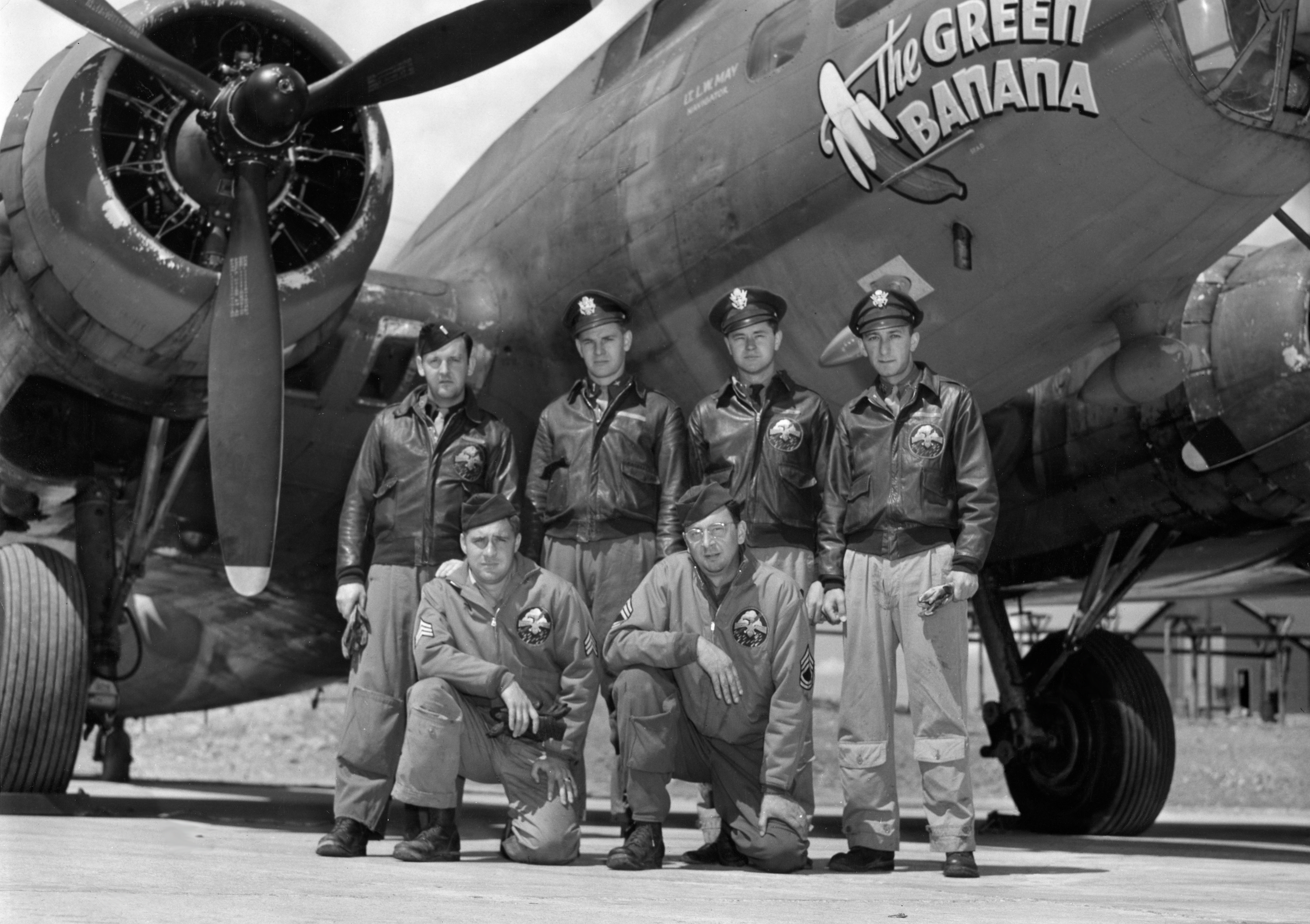 1st Weather Reconnaissance Squadron B-17 "The Green Banana" & Crew.